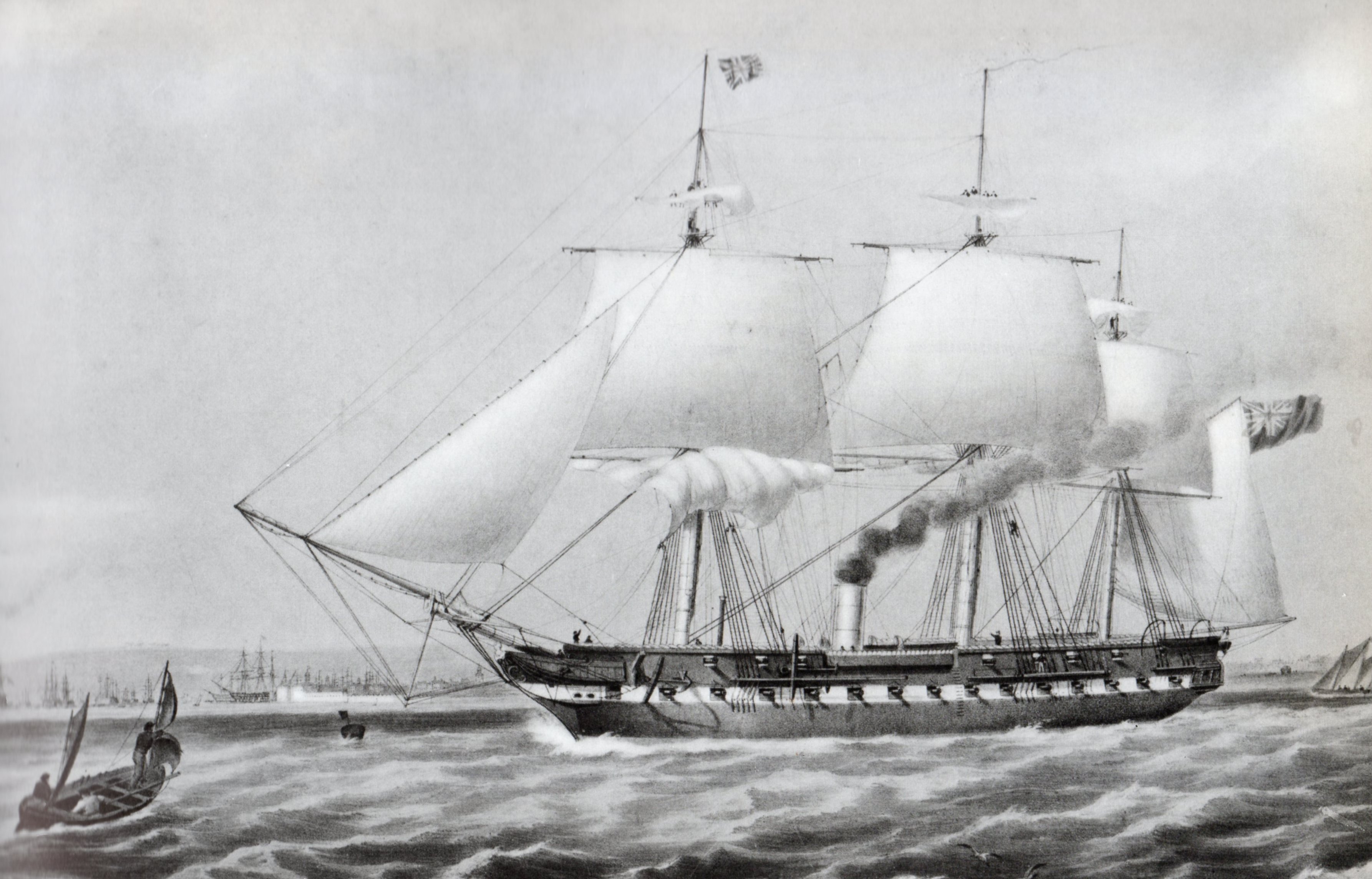 The 48 Gun Steam Frigate HMS Arrogant, built in